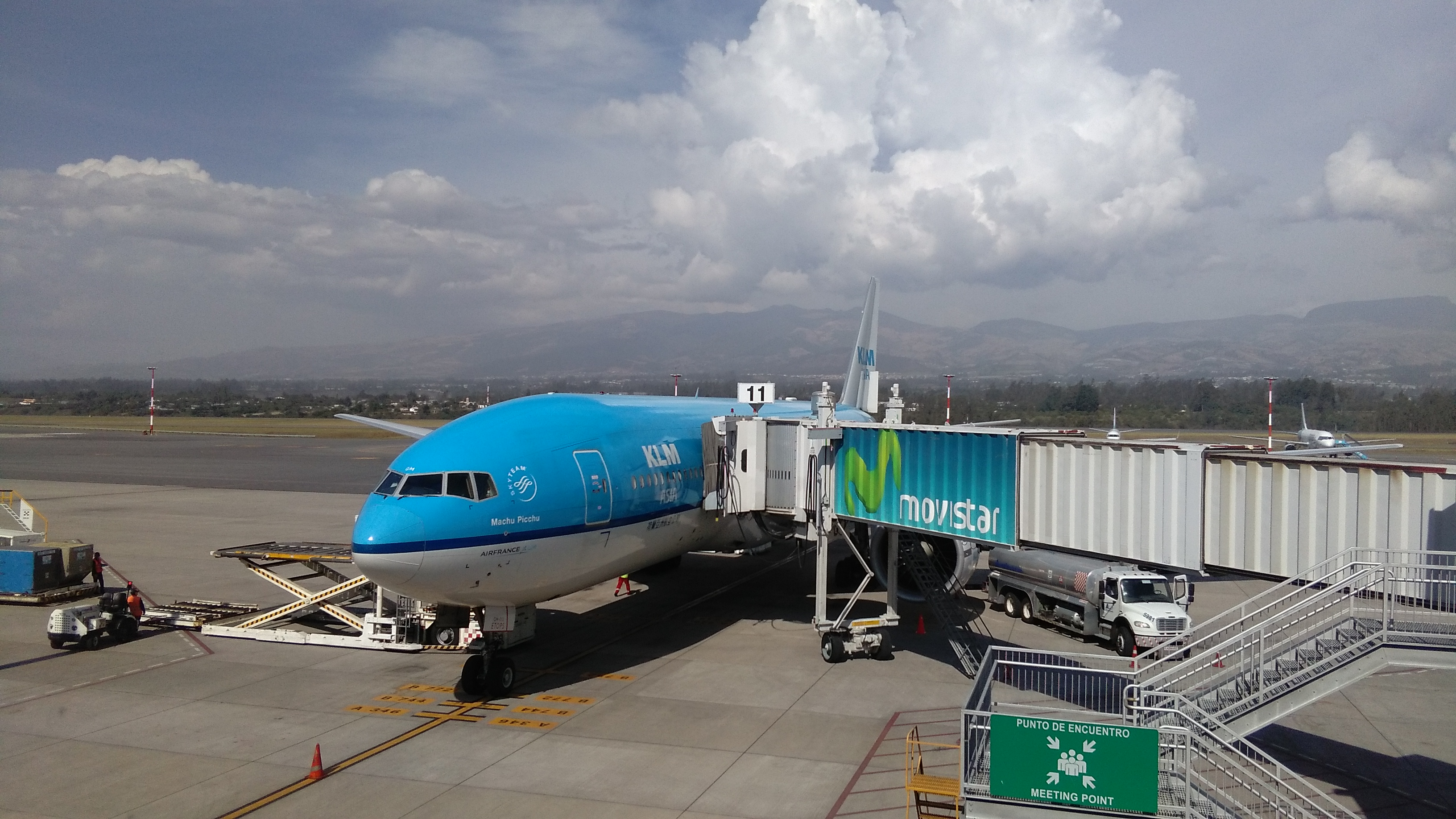 KLM flies daily to Quito and Guayaquil using the Boeing 777